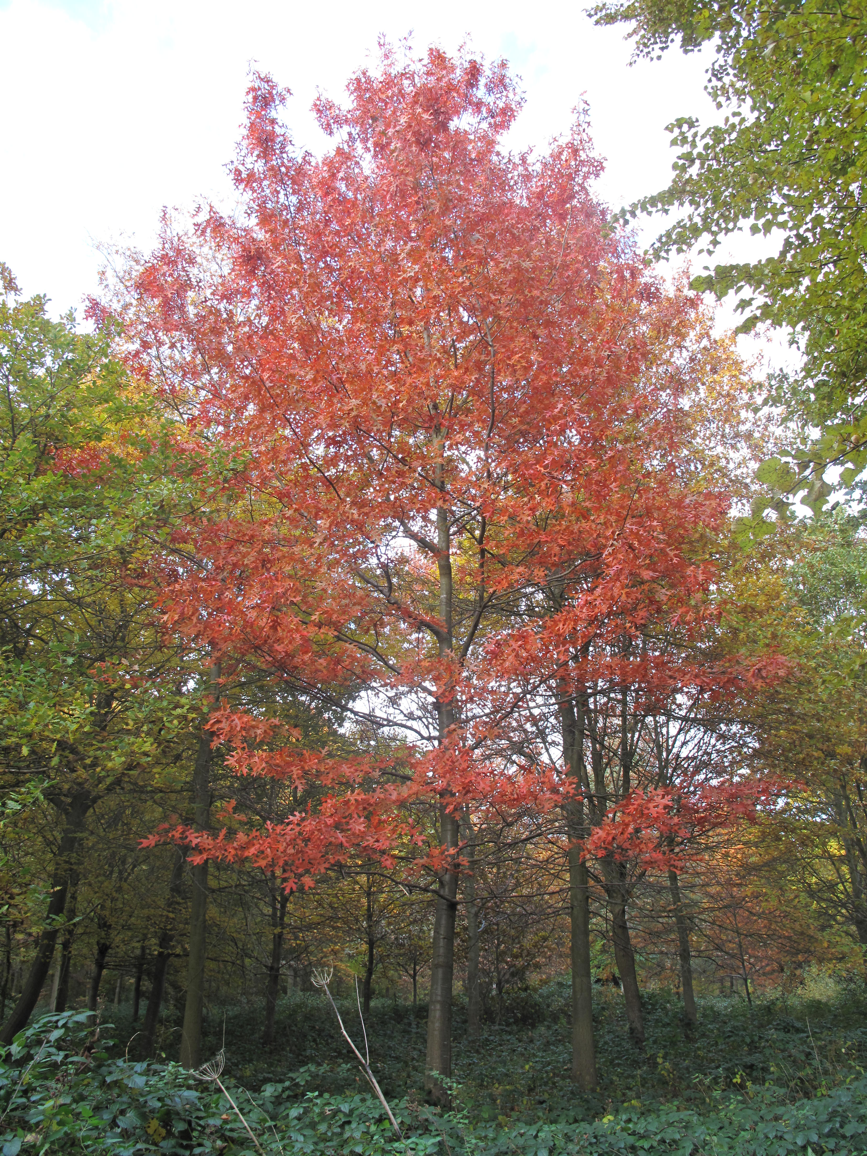 Oak (either Quercus coccinea or Quercus palustris) in the bois de Vaires-sur-Marne, France, in autumn.